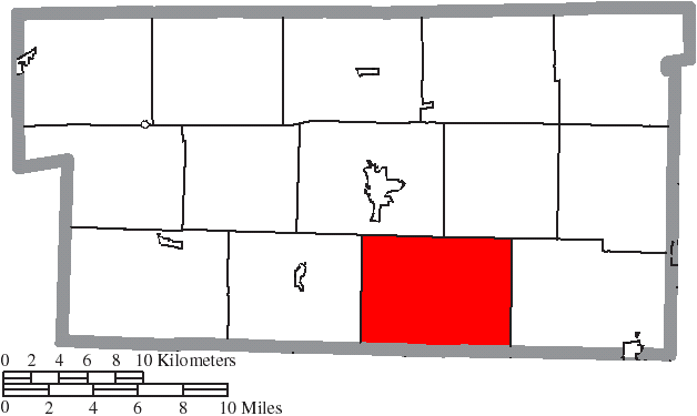 Map of the municipal and township boundaries of Holmes County, Ohio, United States, as of the 2000 census, with the location of Mechanic Township highlighted. Township borders are shown only in unincorporated areas in order to differentiate incorporated and unincorporated areas more clearly.